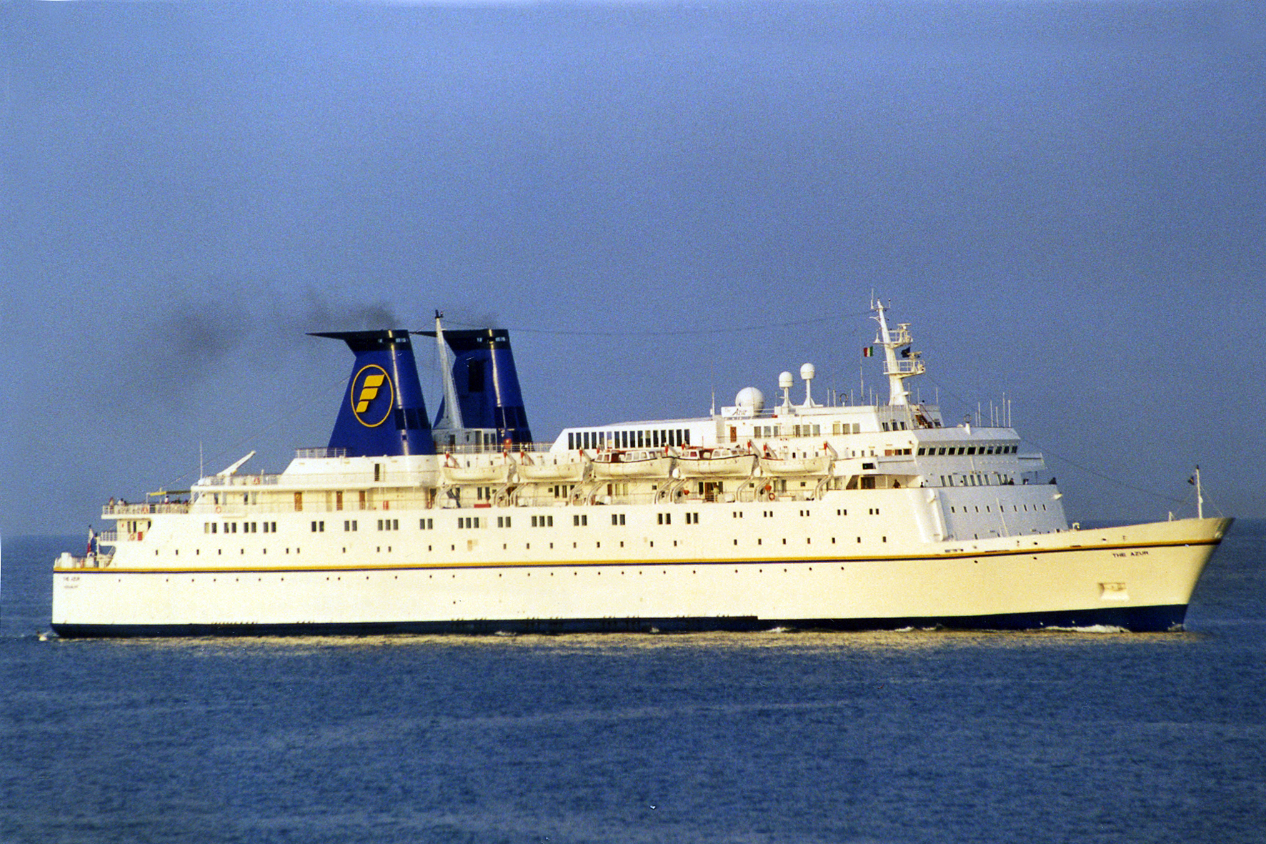 The cruise ship The Azur arriving at Genoa on July 15, 2001.